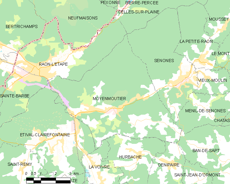 Map of French municipality Moyenmoutier